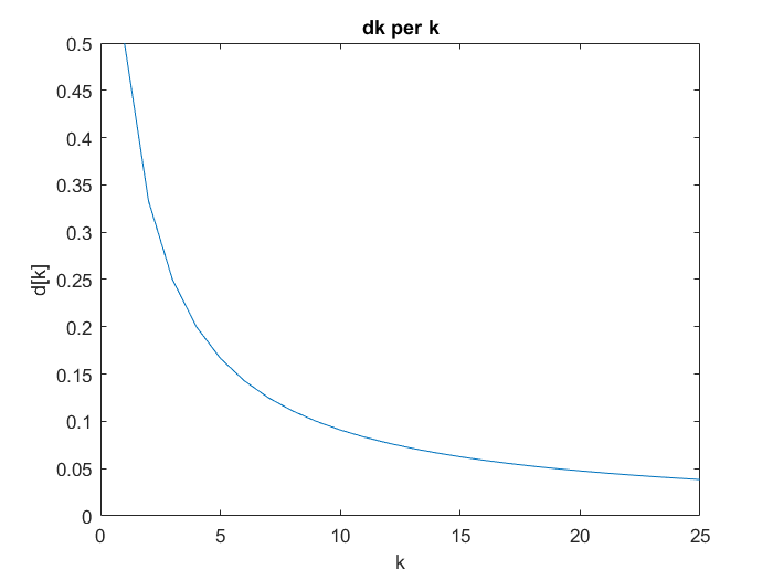 Dk_converganceRate